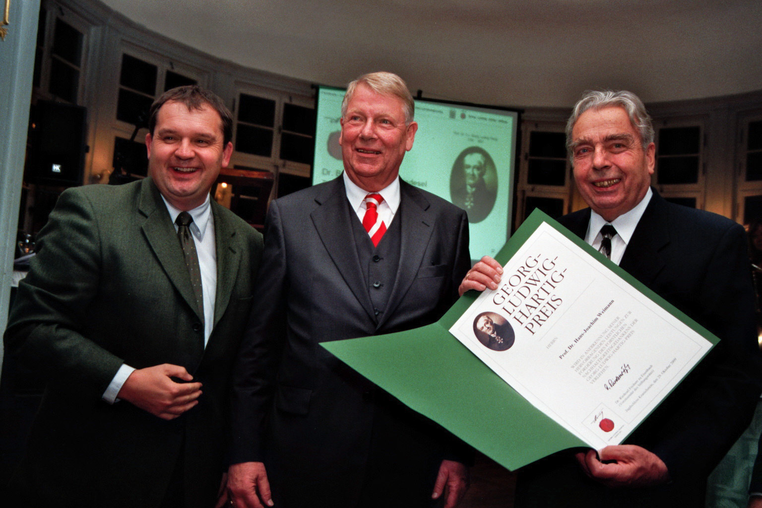 Award ceremony of the Georg-Ludwig-Hartig-Preis 2009 on October 29, 2009 at Jagdschloss Kranichstein, Darmstadt: Award winner Professor Dr. Hans-Joachim Weimann (r.) with Ministerialdirigent Carsten Wilke (l.) and Dr. Berthold Riedesel Freiherr zu Eisenbach, both members of the board of the Georg-Ludwig-Hartig-Stiftung, Wiesbaden.